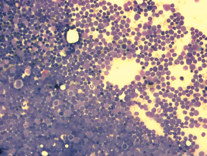 Bone marrow smear from a patient with acute lymphoblastic leukemia.